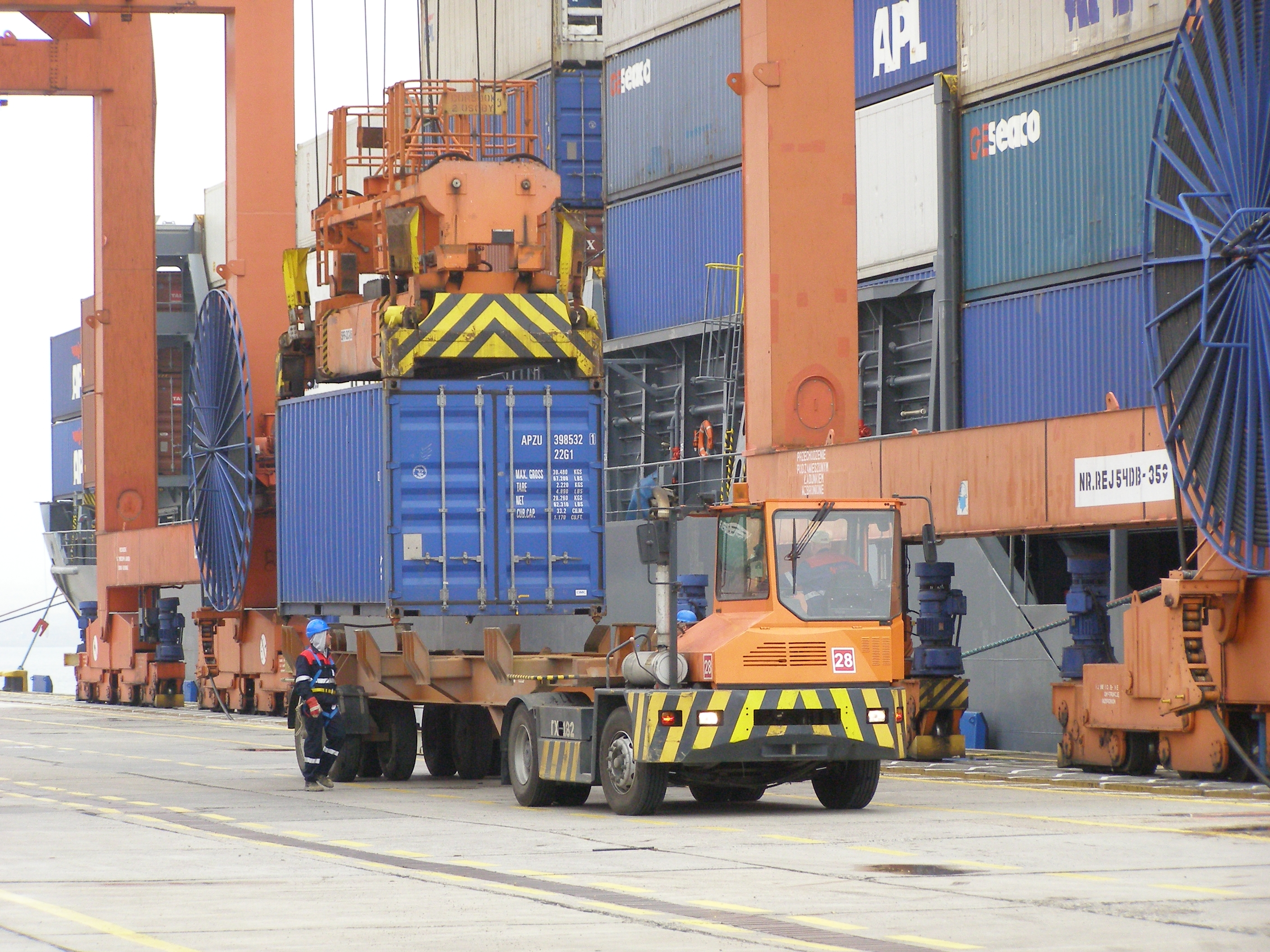 Gdynia - Baltic Container Terminal海外の港で使用されている本船荷役専用特殊シャーシと、牽引するトラクター。青いコンテナの真下の特殊シャーシには、ツイストロック等の固定装置は無く、代わりにシャーシ前後左右から斜め上向きに飛び出している爪状の受け枠で、ズレない様に支える。牽引するトラクター等の容姿に多彩な違いはあるが、この荷役方式は日本を含め世界中で使用されている。